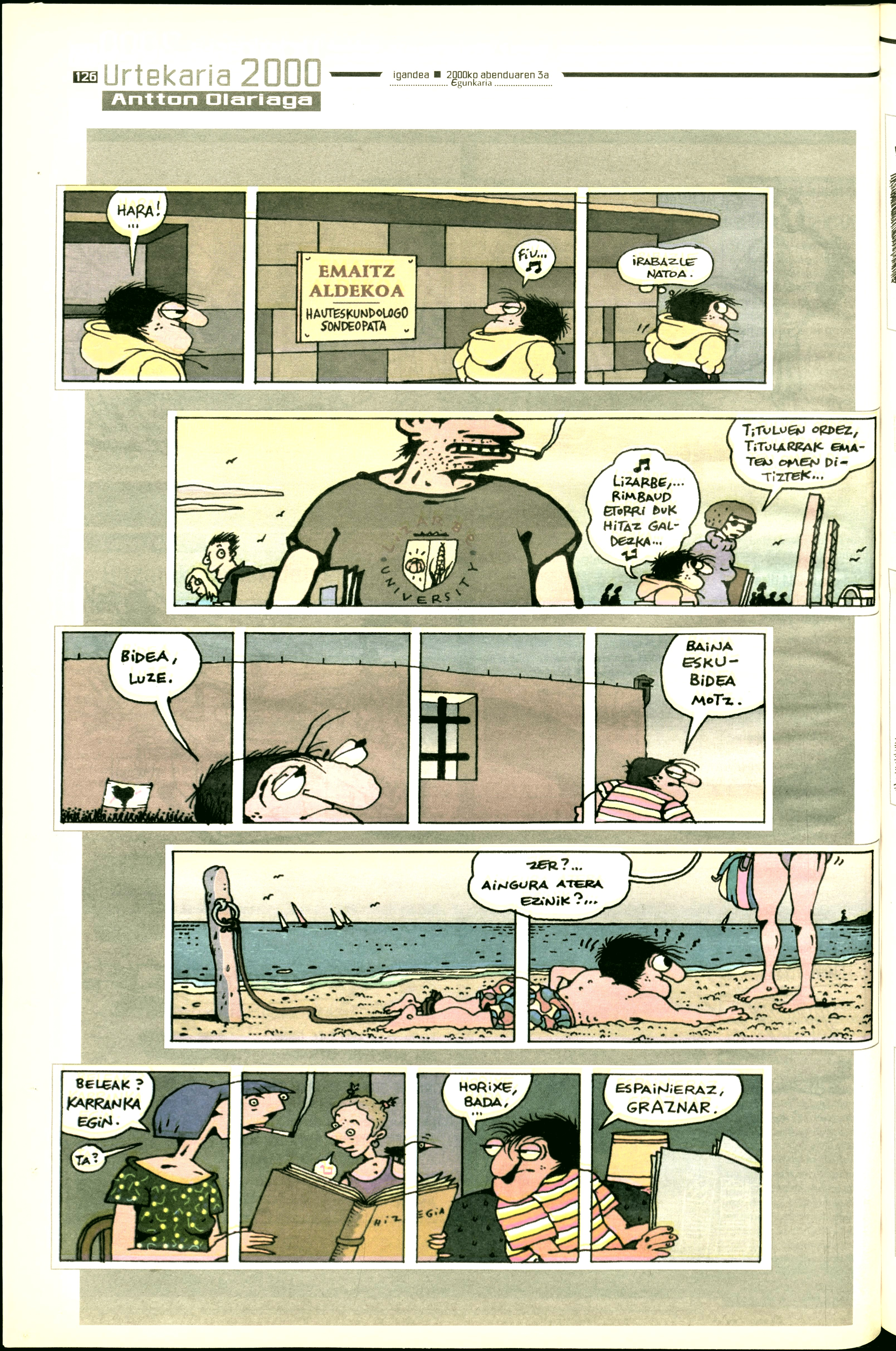 Five comic stripes of Xakilixut collected as an annual summary in the Yearbook 2000 of the Euskaldunon Egunkaria newspaper in Basque.